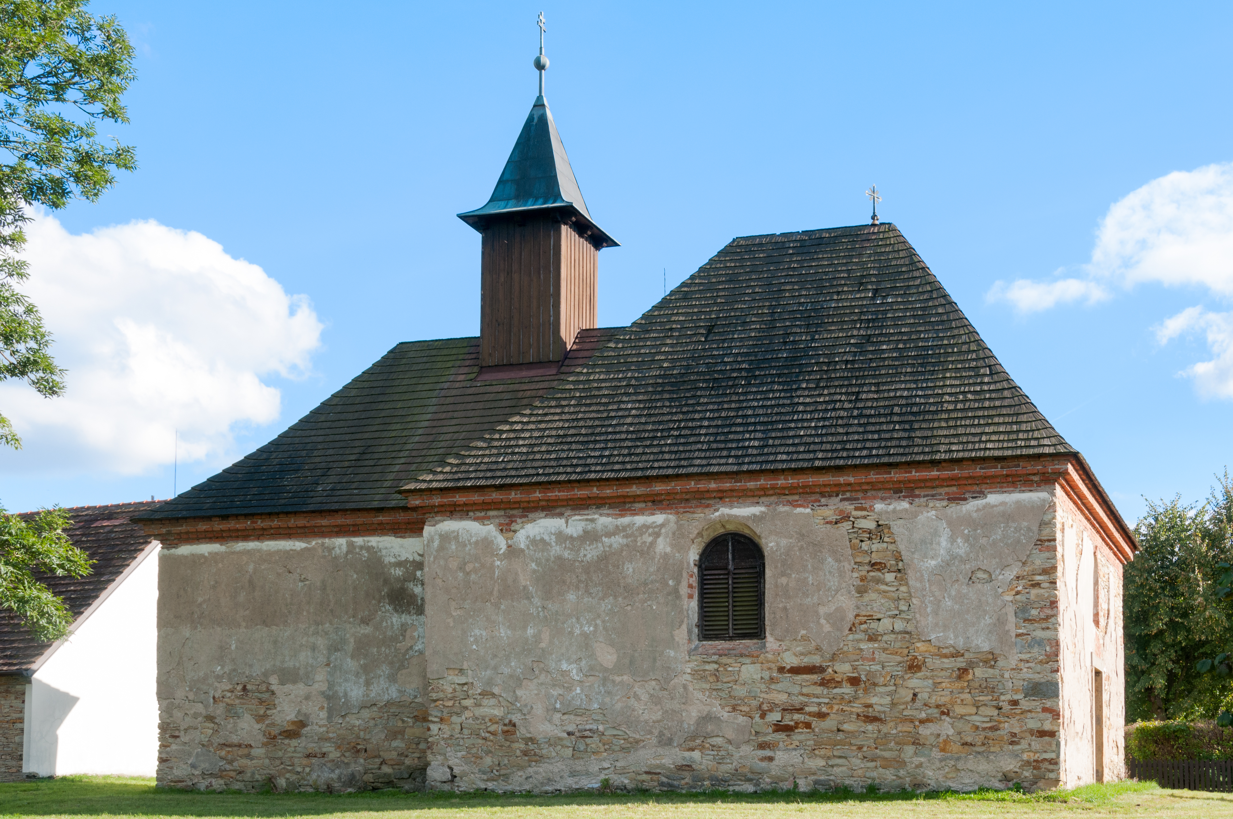 Church of John the Baptist, Klášter nad Dědinou, Eastern Bohemia, Czech Republic, EU